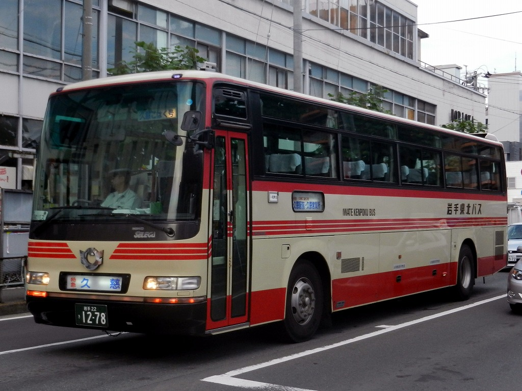 Iwate Kenpoku bus HINO S'ELEGA (KC-RU3FSCB) Highwaybus "Kuji-Kohaku go"(Morioka-Kuji,Iwate,Japan)